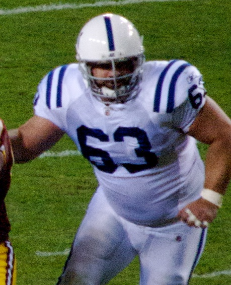 Colts and Redskins game, oct. 17, 2010, was shown as NBC Sunday Night Football